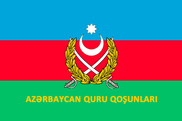 Flag of Azerbaijan Land Forces.